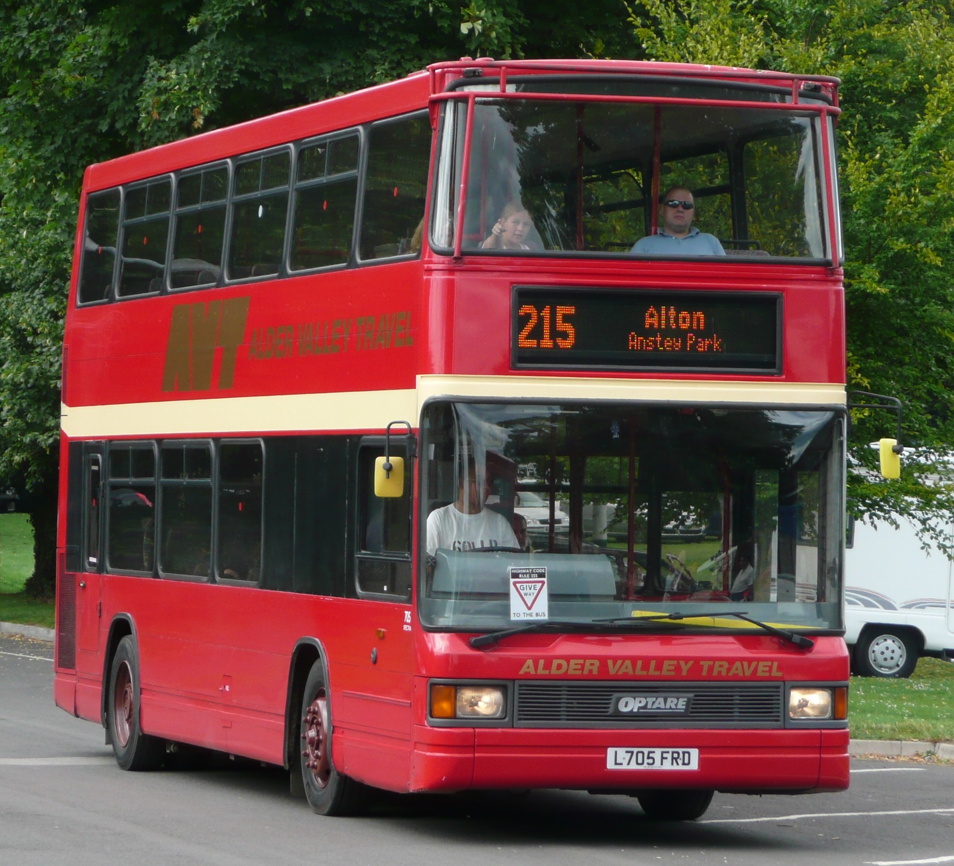 Alder Valley Travel's 705 (L705 FRD), a DAF DB250/Optare Spectra, at the 2008 Alton bus rally at Anstey Park.